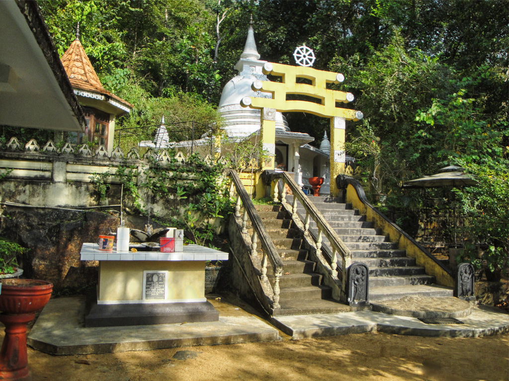 Madakada Aranya01